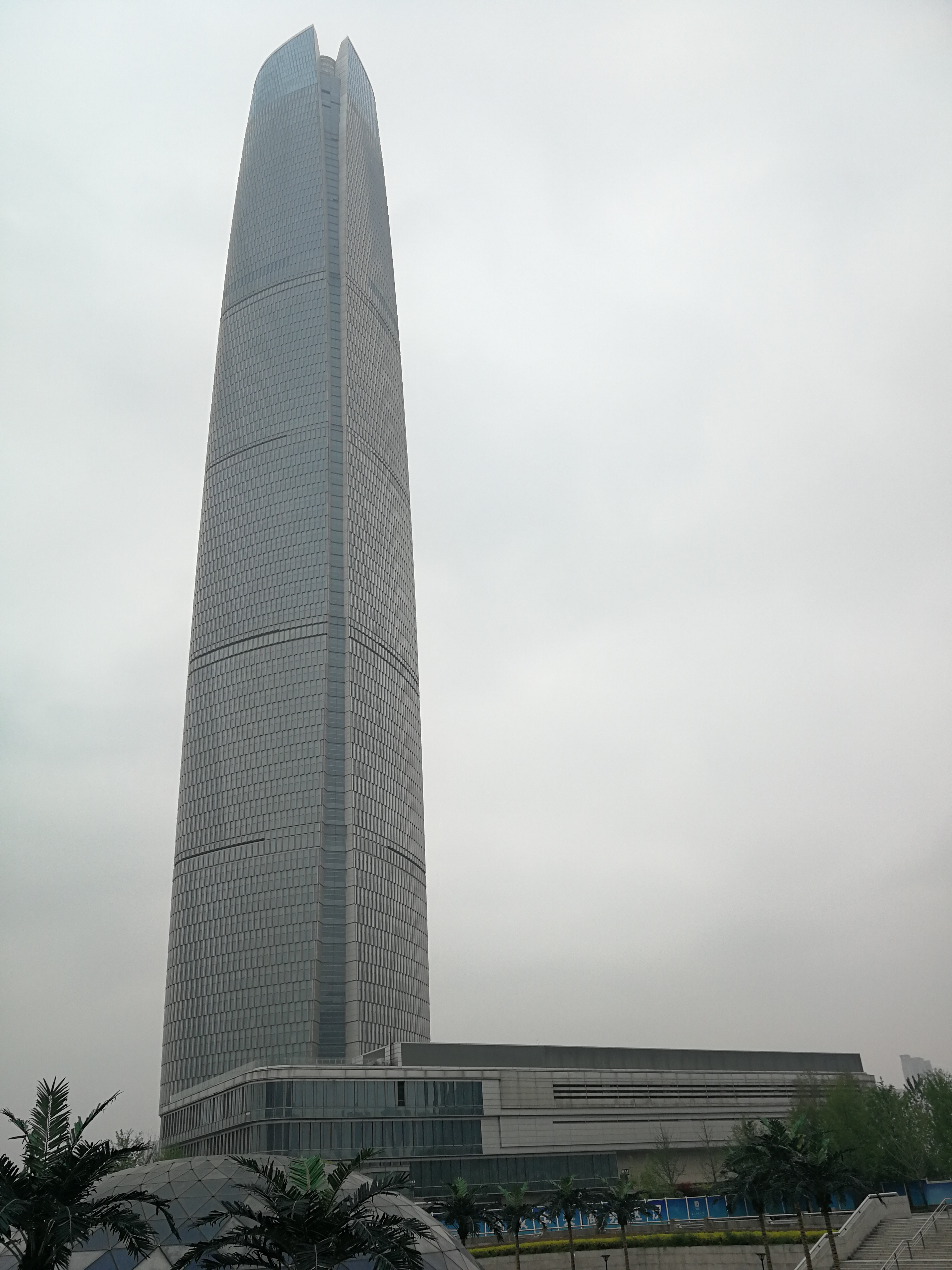 Wuhan Center Tower （view from the Central Square of Wuhan CBD）